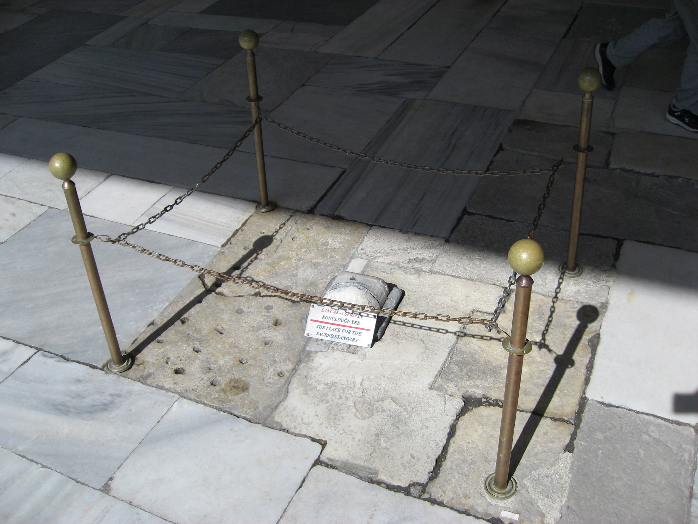 Small stone at the Gate of Felicity where the Holy Standard was placed in front of the sultan before each war campaign.